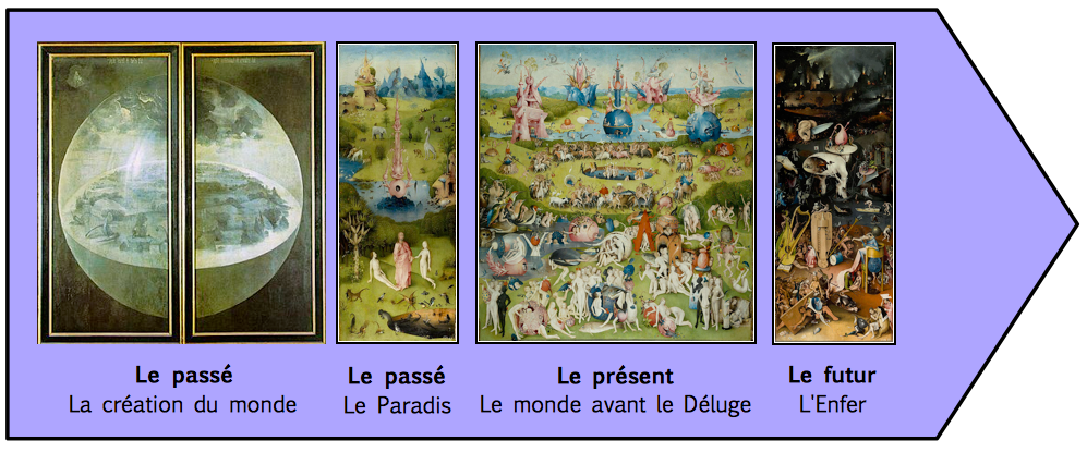 A traditional interpretation of the Garden of Delights